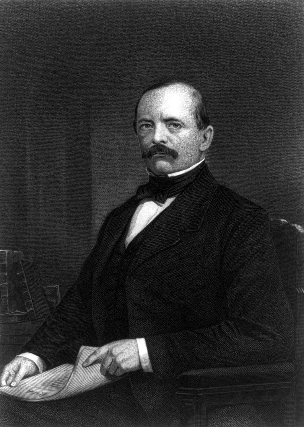 Otto von Bismarck